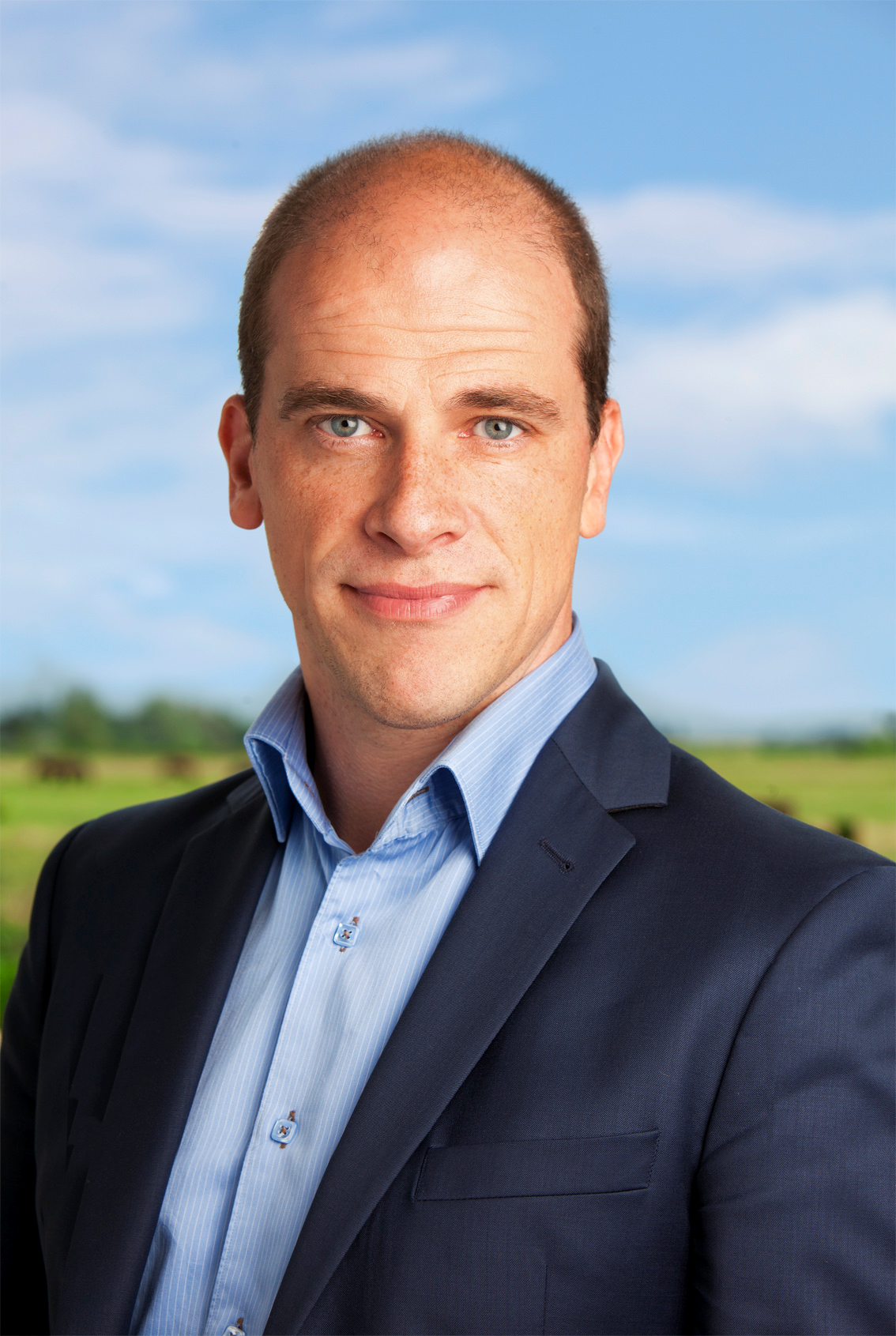 Dutch politician Diederik Samsom, leader of the Labour Party of the Netherlands and a candidate for the general election on 12 September 2012.